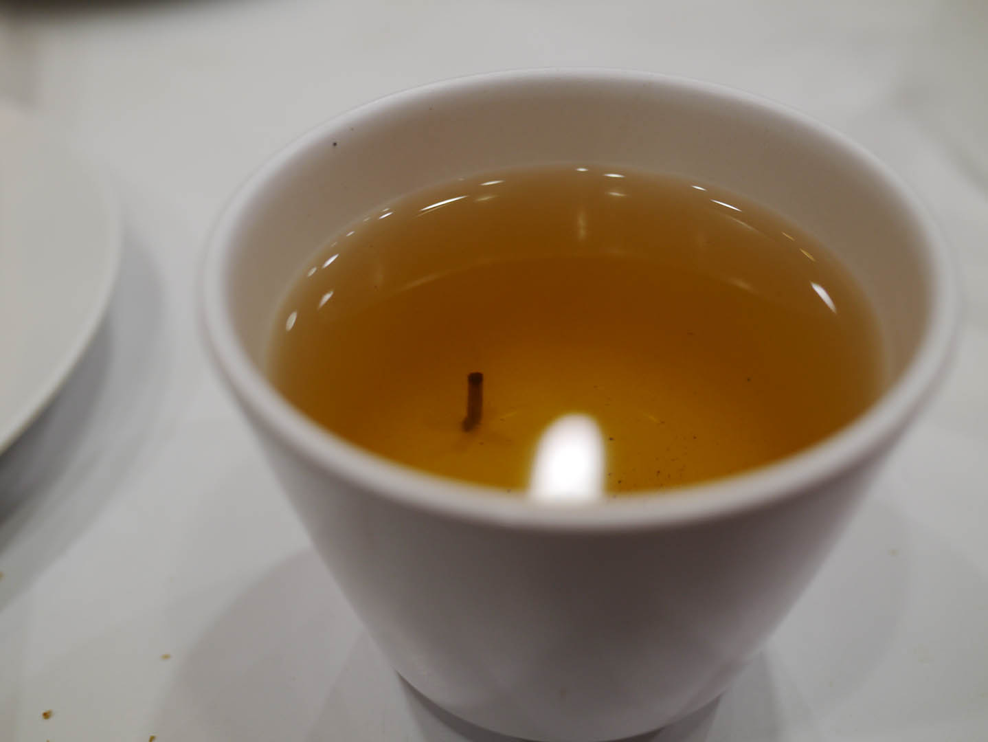 A stalk of tea standing up